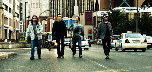 Blister 2nd album photo session